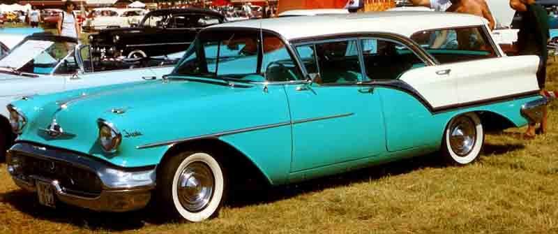 Oldsmobile Super 88 Stationwagon 1957